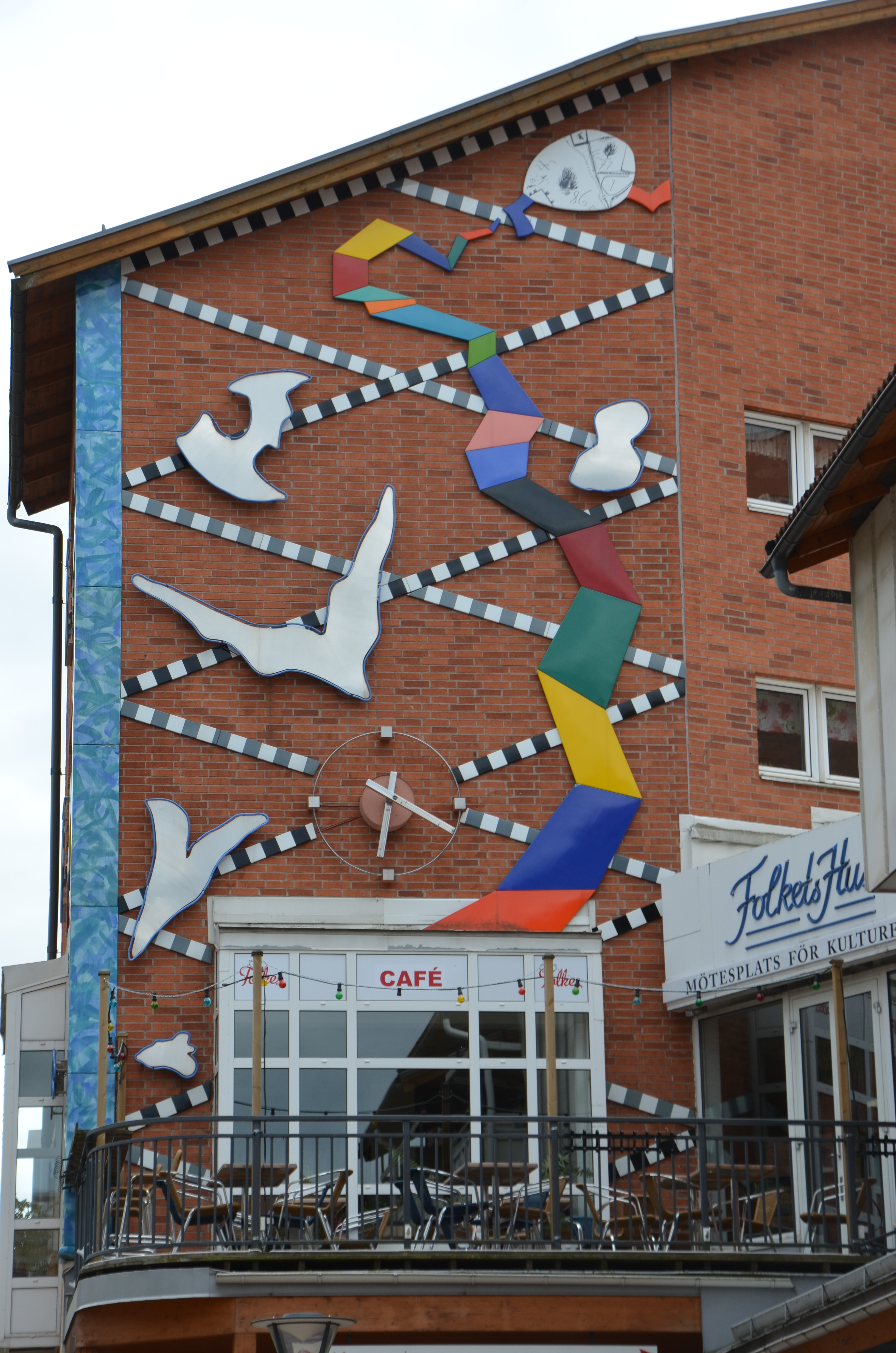 Olle Brands Huddingekarta, Folkets Hus, Huddinge centrum